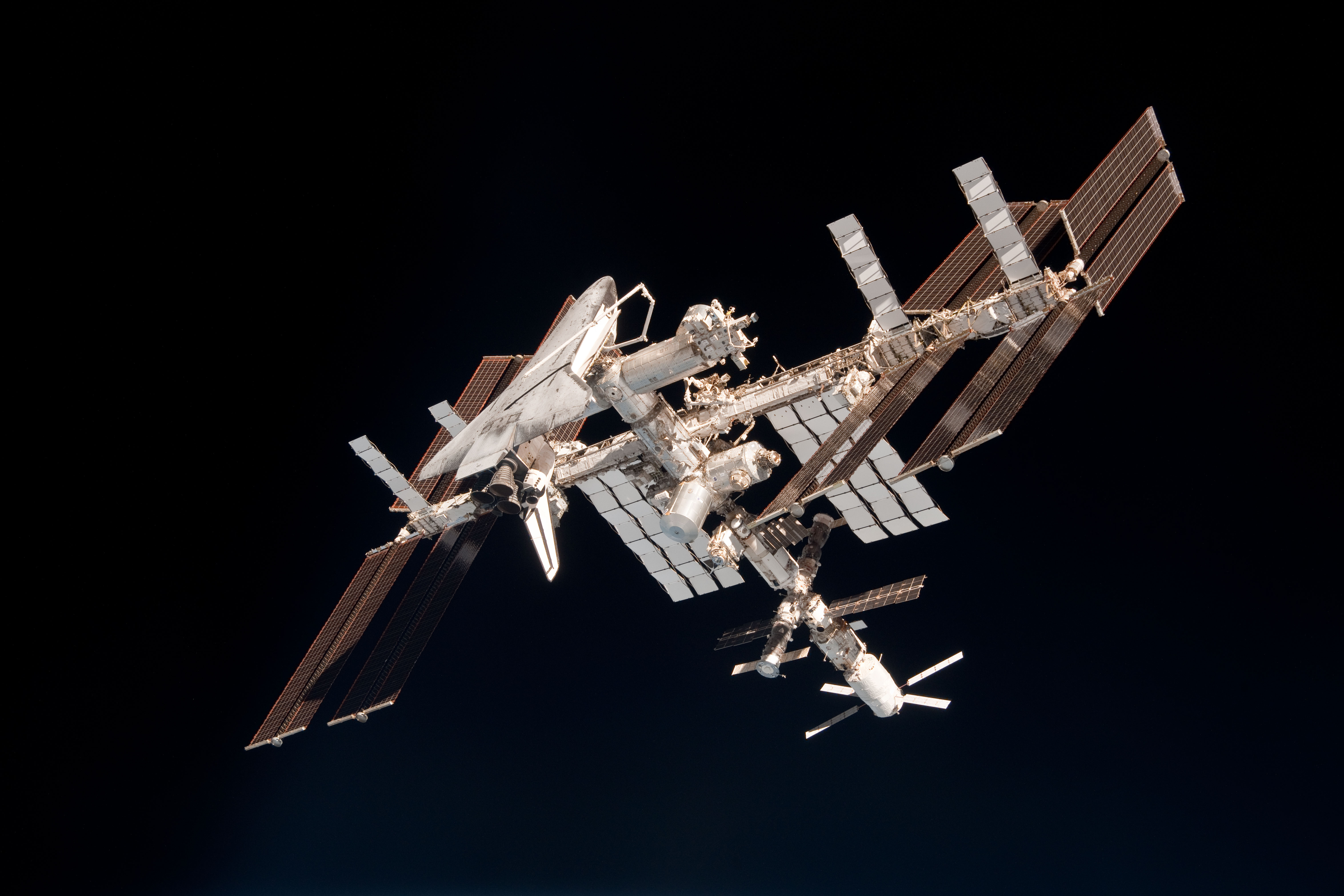 This image of the International Space Station and the docked space shuttle Endeavour, flying at an altitude of approximately 220 miles, was taken by Expedition 27 crew member Paolo Nespoli from the Soyuz TMA-20 following its undocking on May 23, 2011 (USA time). The pictures are the first taken of a shuttle docked to the International Space Station from the perspective of a Russian Soyuz spacecraft. Onboard the Soyuz were Russian cosmonaut and Expedition 27 commander Dmitry Kondratyev; Nespoli, a European Space Agency astronaut; and NASA astronaut Cady Coleman. Coleman and Nespoli were both flight engineers. The three landed in Kazakhstan later that day, completing 159 days in space.